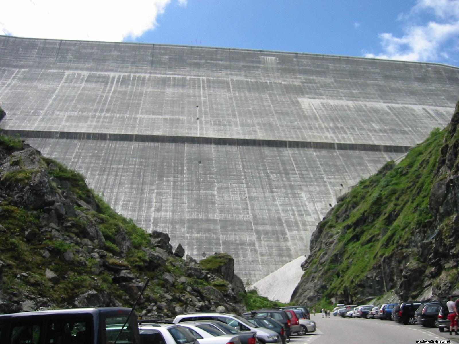 Description: "The Grand Dixence" dam, seen from the park area Author: Juju ( WebSite: Url